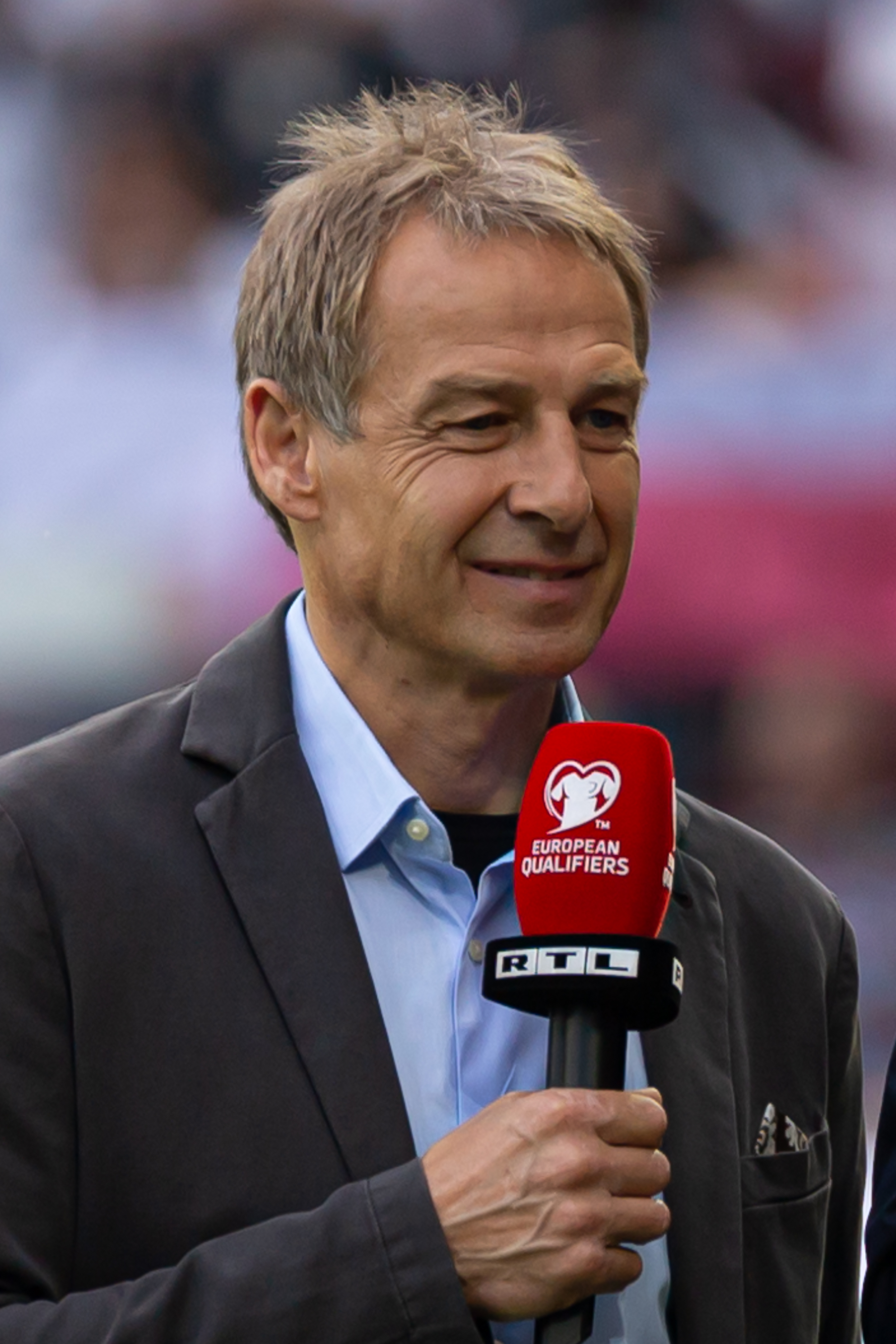 UEFA Euro 2020 qualifier Germany-Estonia